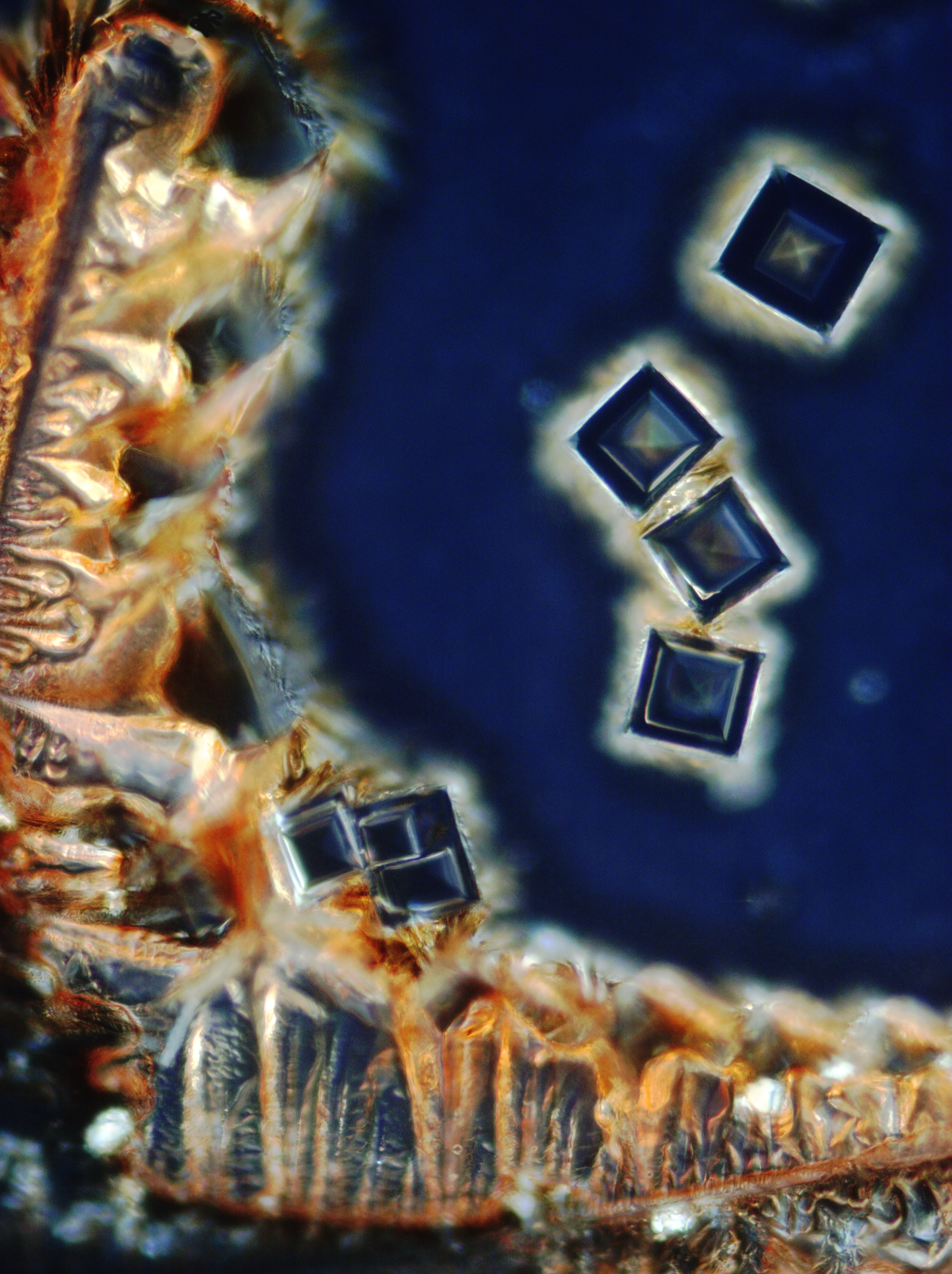 Crystals of adrenaline in the polarizing microscope (300x magnification in A3)